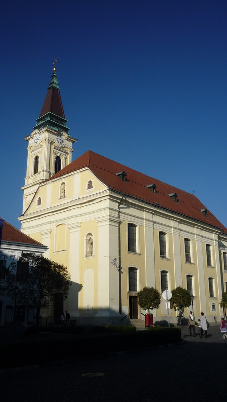 Saint Imre church in Székesfehérvár, Hungary